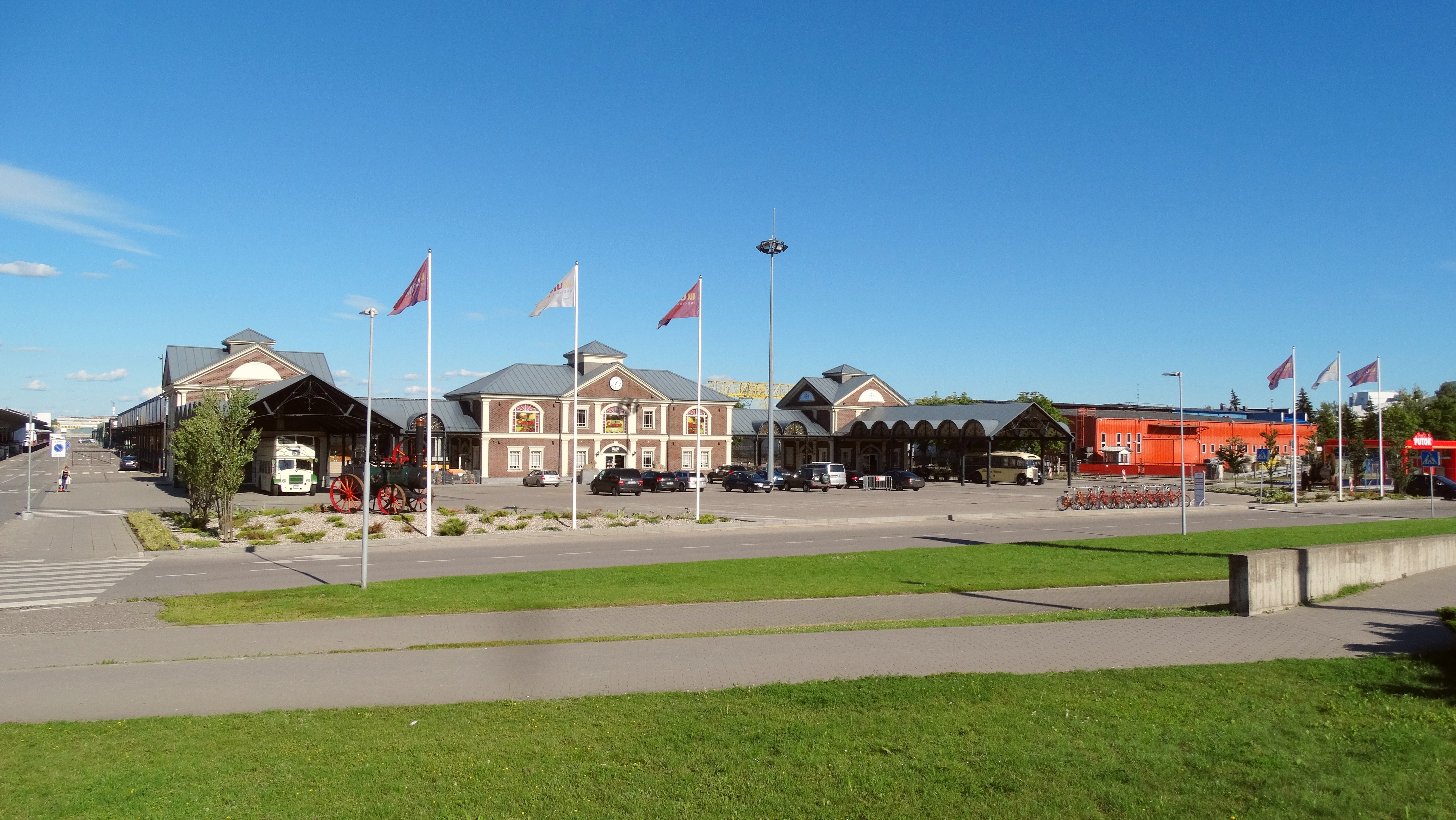 Urmas market, Kaunas, Lithuania